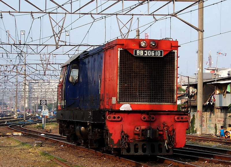 Diesel hydraulic loco BB 306-10 shunting at Jakarta Kota, Indonesia